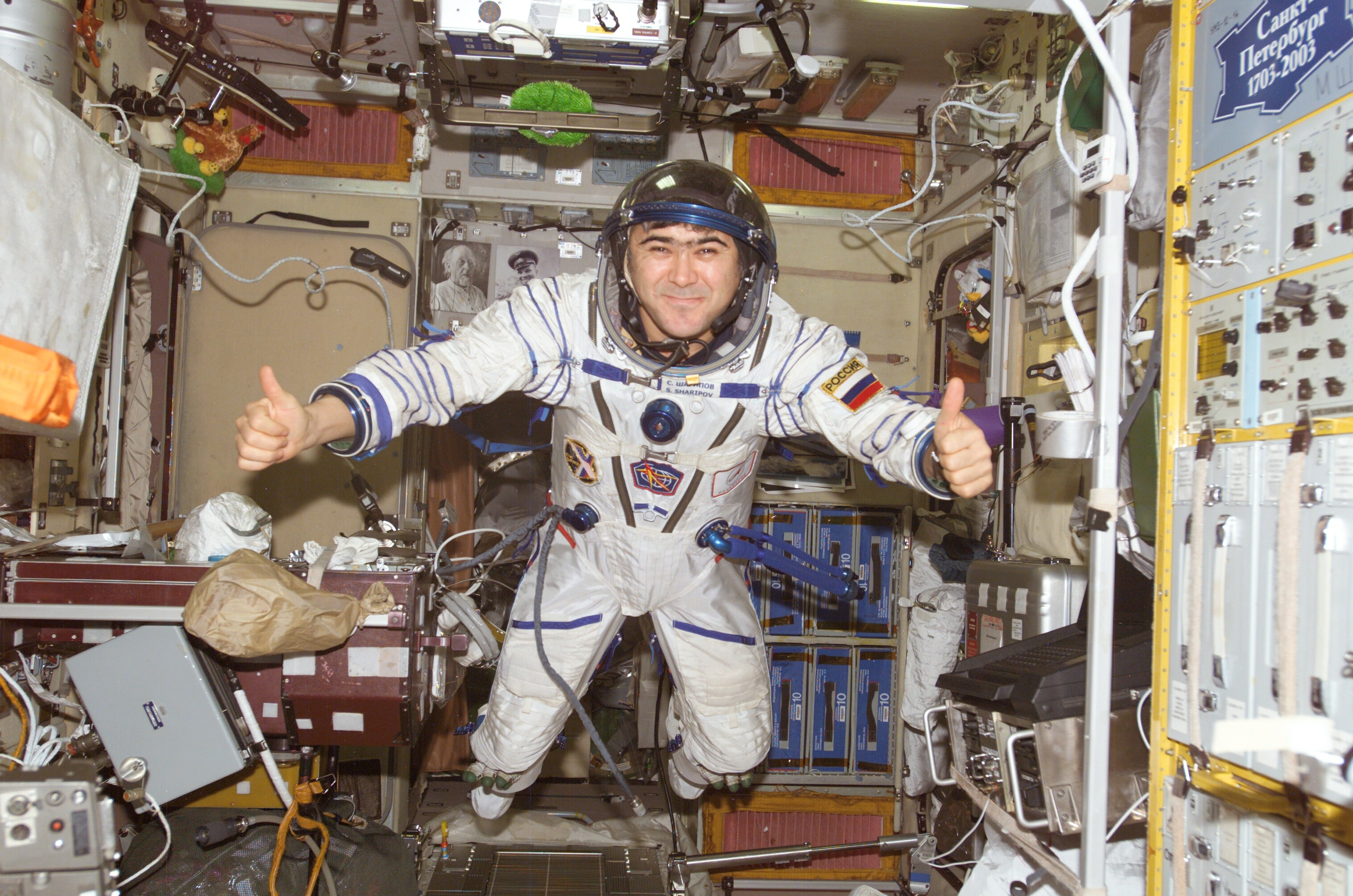 Wearing a Russian Sokol suit, cosmonaut Salizhan S. Sharipov, Expedition 10 flight engineer representing Russia's Federal Space Agency, floats in the Zvezda Service Module of the International Space Station (ISS).